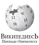 A logo for Wikipedia in the Moksha language.